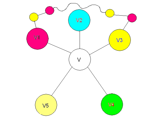 A five-colored planar graph.